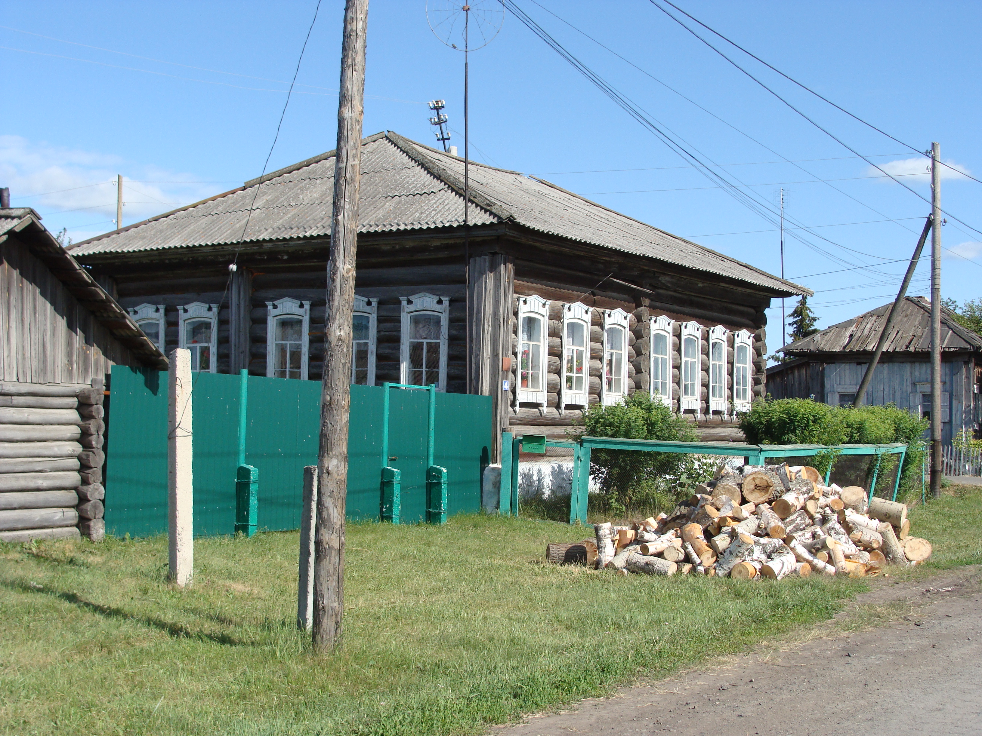 House of pope in Kranopolyanskoye